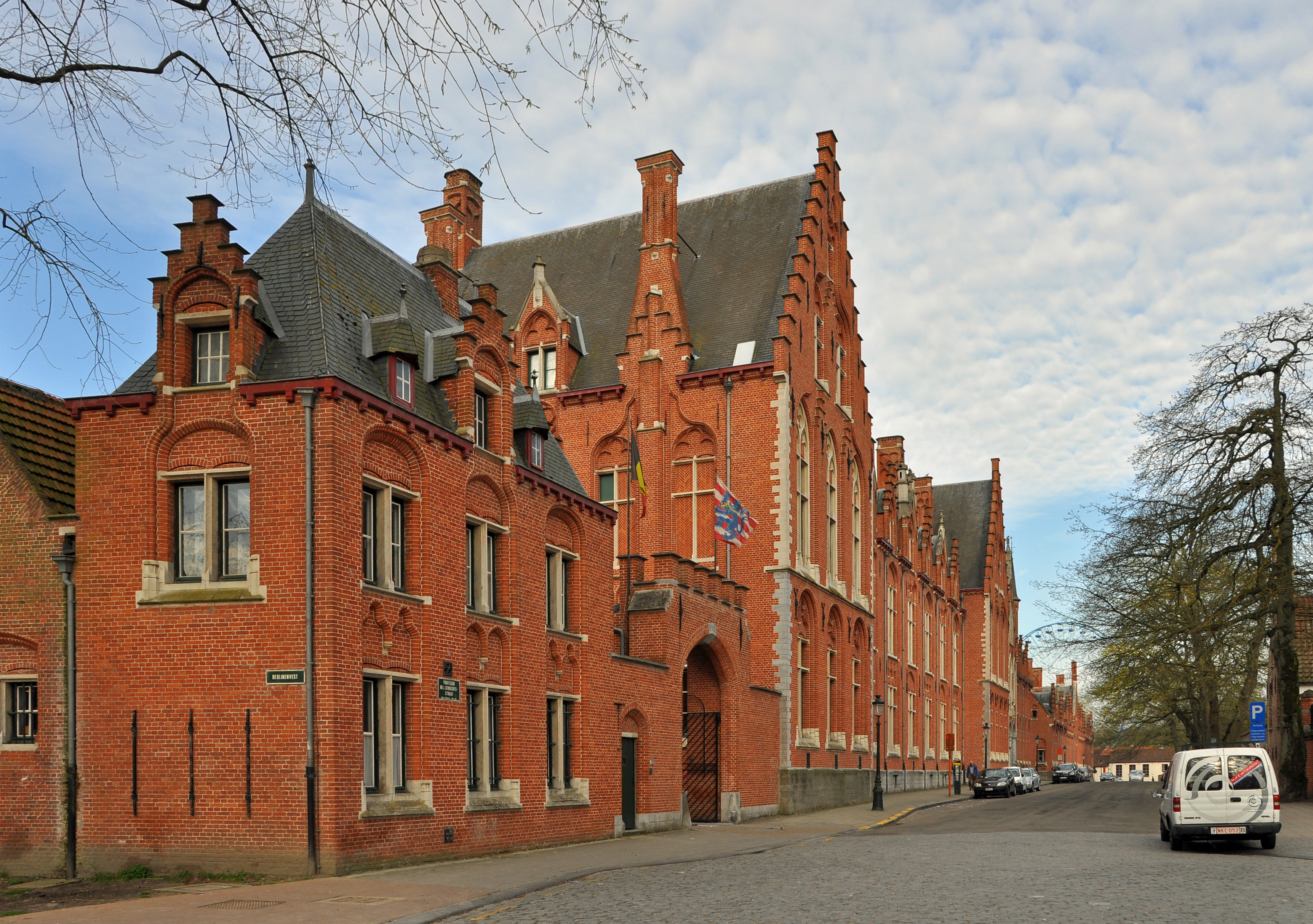 Bruges (Belgium): Professor Dr. J. Sebrechtsstraat